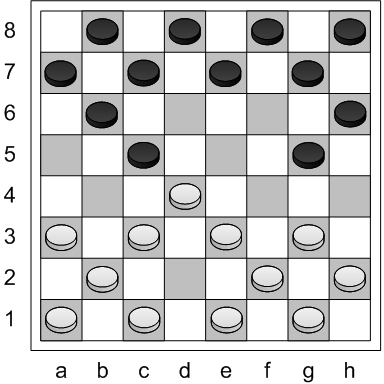 Position in opening Городская партия (Gorodskaya partiya) in russian checkers